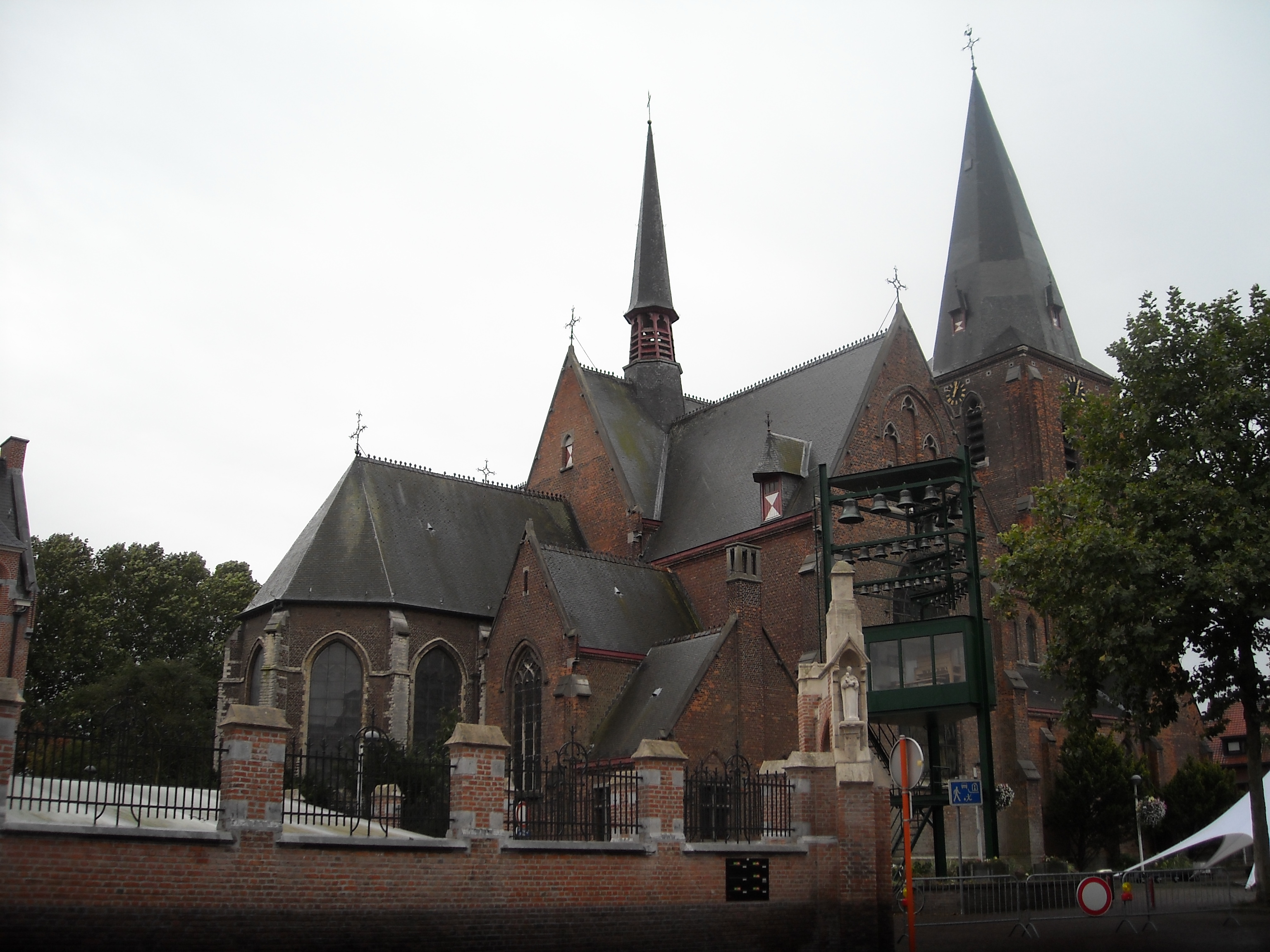 The choir dates from the 15th century, the nave from the 16th century, with renovations/restorations from 1854, 1899-1901, 1938, 1947-48 and 1953.